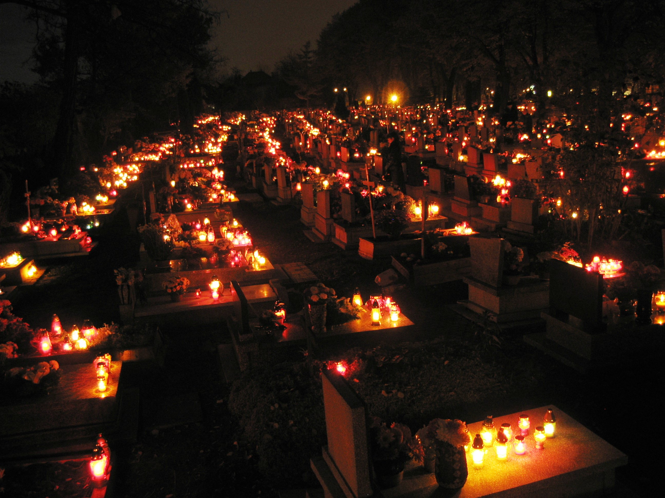 All Saints Day in Katowice-Dąb Cemetery, Bracka street, Poland